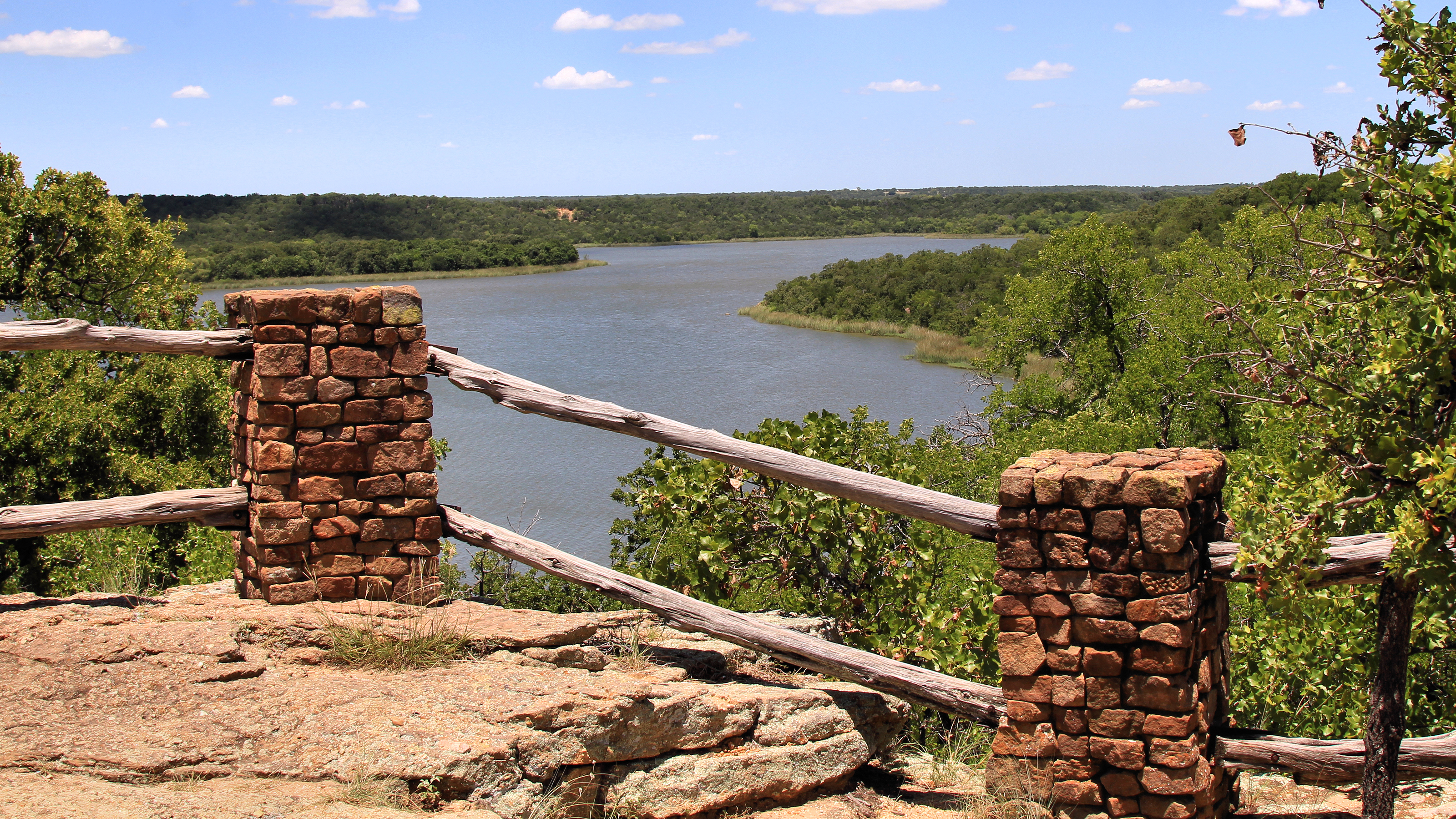 A nice view in Lake Mineral Wells State Park